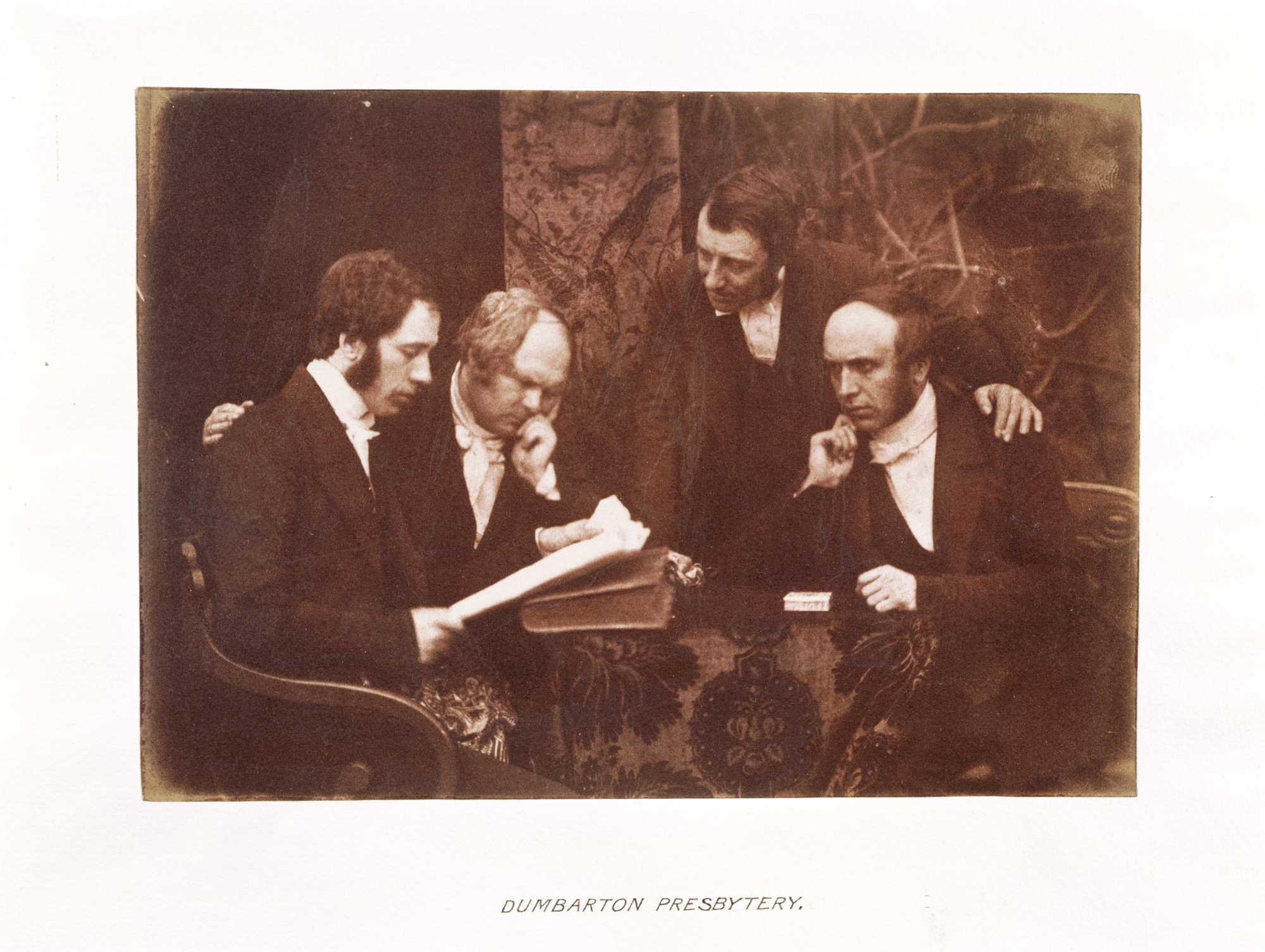 David Octavius Hill and, British, 1802–1870 Robert Adamson, British, 1821–1848 Dumbarton Presbytery, 1845 Salted paper print 14.5 x 20.2 cm. (5 11/16 x 7 15/16 in.) mount: 36.1 x 27.5 cm. (14 3/16 x 10 13/16 in.) Robert O. Dougan Collection, gift of Warner Communications, Inc. x1982-300